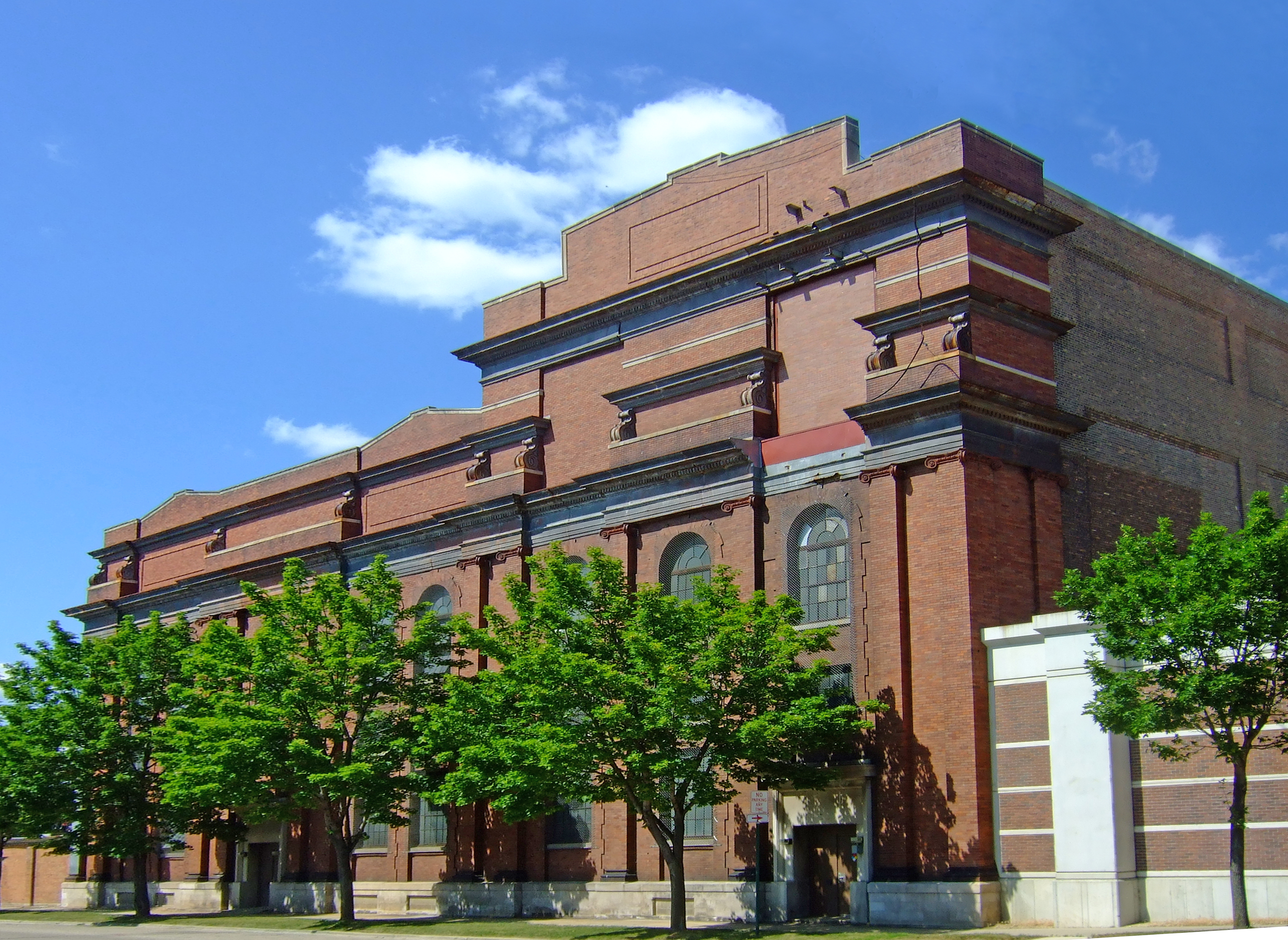 Madison Gas & Electric Company Powerhouse (1902), designed by Claude and Starck and expanded by Mead & Seastone (1915) in early 20th-century industrial style with Flemish neo-Classical motifs. Added to the National Register of Historic Places in 2002.